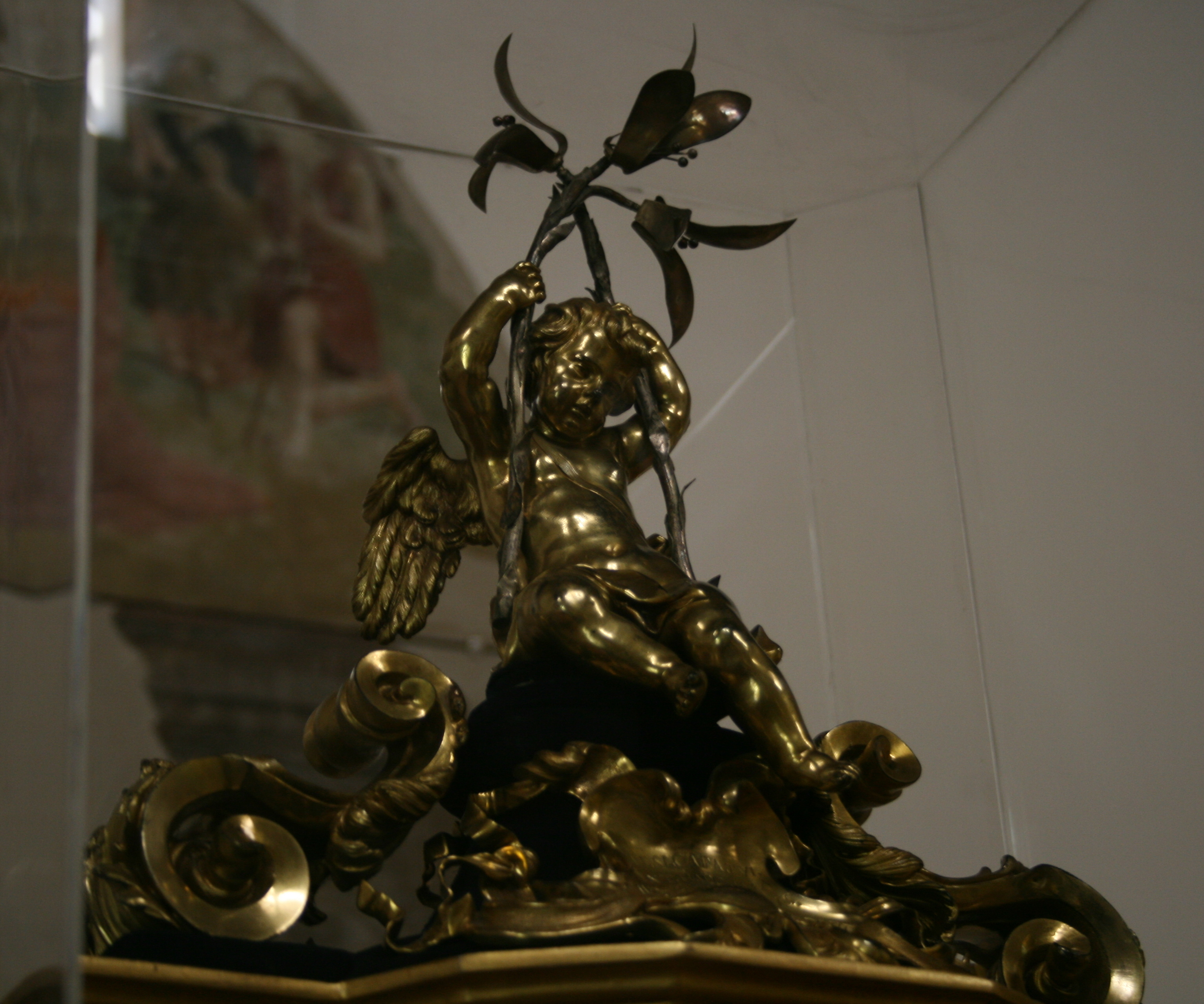 Detail of the Holy Milk Reliquary realized by Massimiliano Soldani Benzi